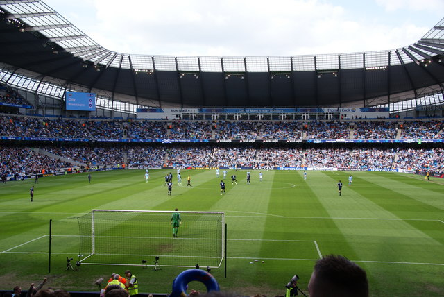 City of Manchester Stadium, 3 km from Droylsden, Tameside, Great Britain. The players are warming up.